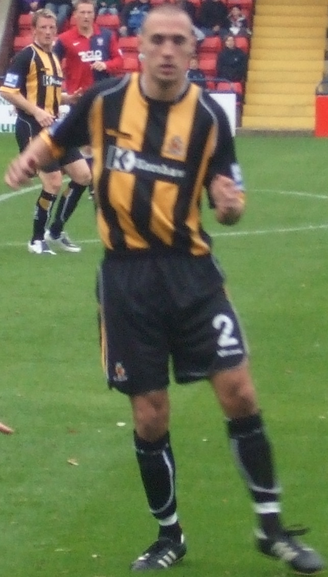 Dan Gleeson.